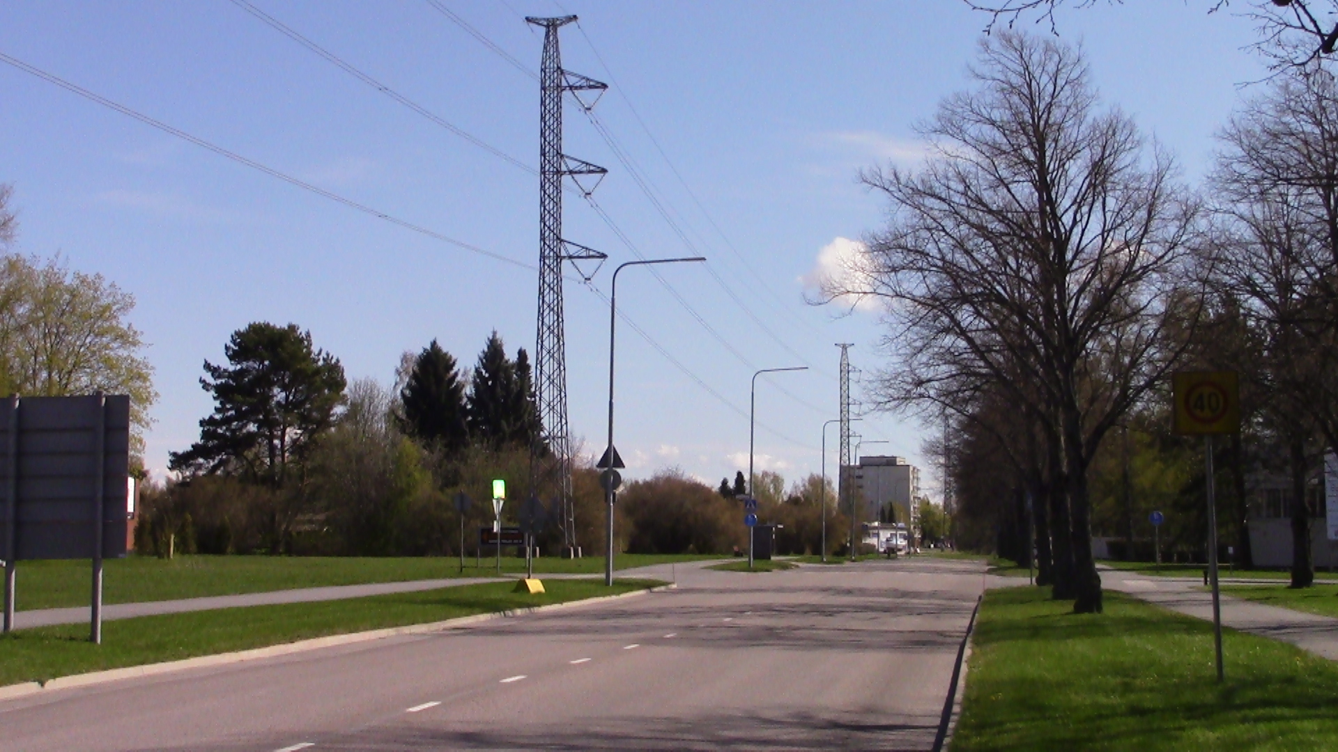 Koivulantie road at Herralahti suburb in Pori, Finland. The picture's taken near the crossing of Puinnintie road.